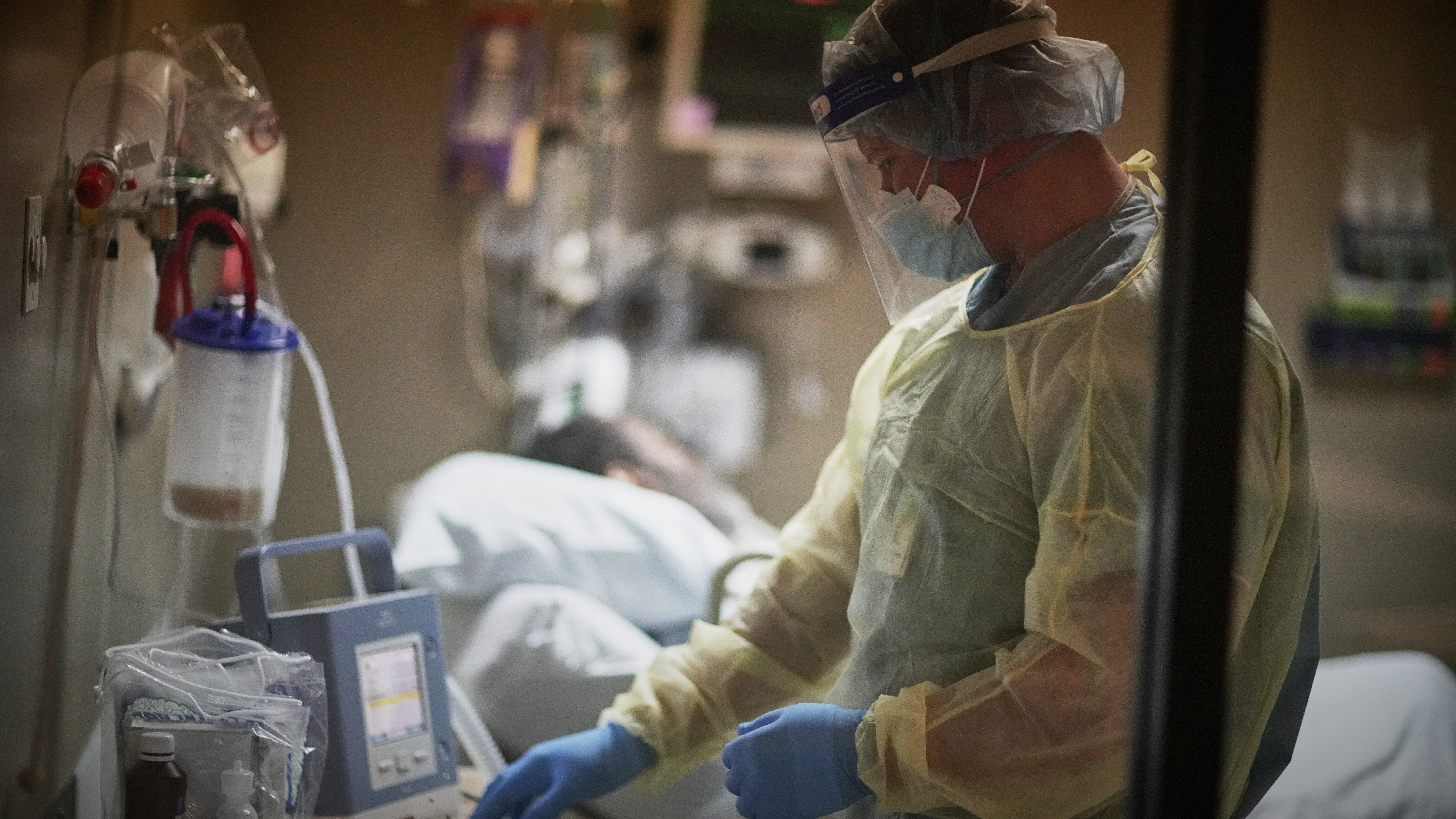 BATON ROUGE, La. (April 28, 2020) Lt. Cmdr. Michael Heimes, assigned to Expeditionary Medical Facility-M, checks on a patient connected to a ventilator during an ICU night shift at Baton Rouge General Mid City campus, April 28, 2020. The 100 EMF-M personnel, part of the Department of Defense COVID-19 response, work to ease the strain of the significant patient care surge as part of the BRG Mid City family. U.S. Northern Command, through U.S. Army North, is providing military support to the Federal Emergency Management Agency to help communities in need. (U.S. Marine Corps photo by Cpl. Daniel R. Betancourt Jr./Released)200428-M-WU117-1661